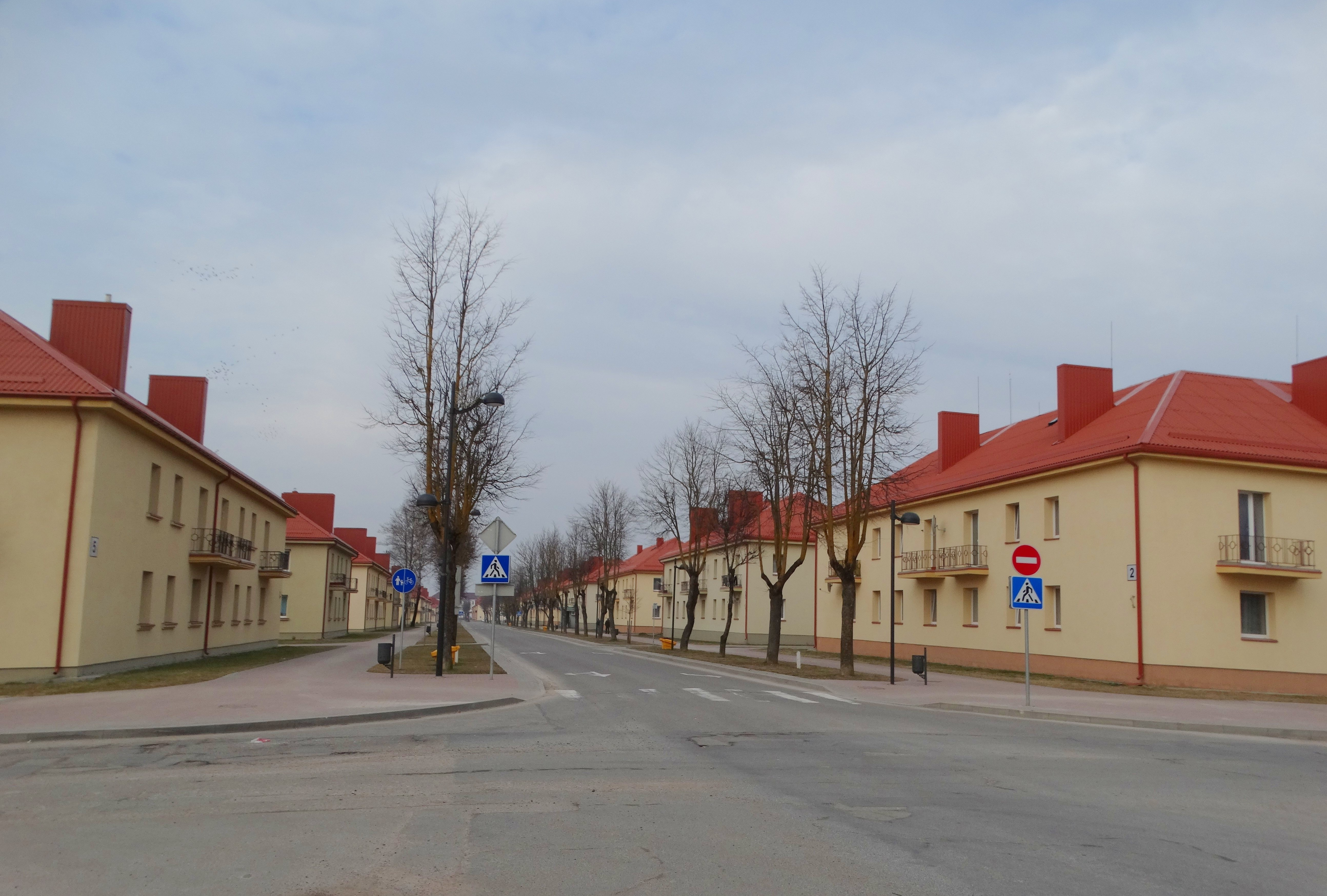 Street, Naujoji Akmenė, Lithuania